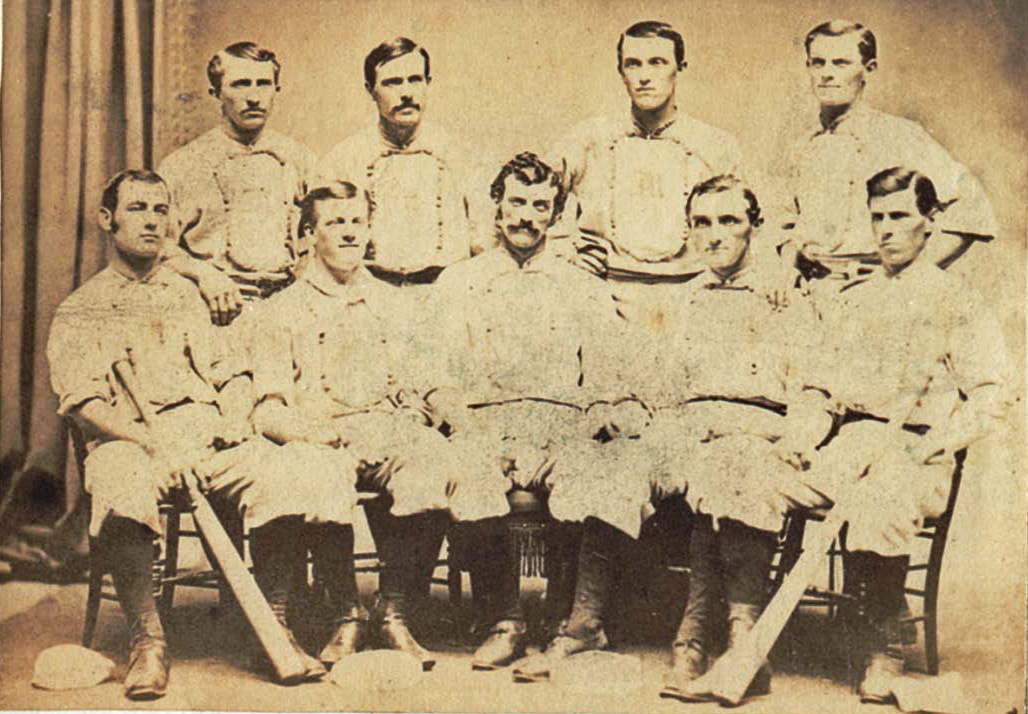 Team photo of the New York Mutual base ball team Standing: Candy Nelson, Phonney Martin, Marty Swandell, Dave Eggler Seated: Everett Mills, John Hatfield, Charlie Mills, Rynie Wolters, Dan Patterson